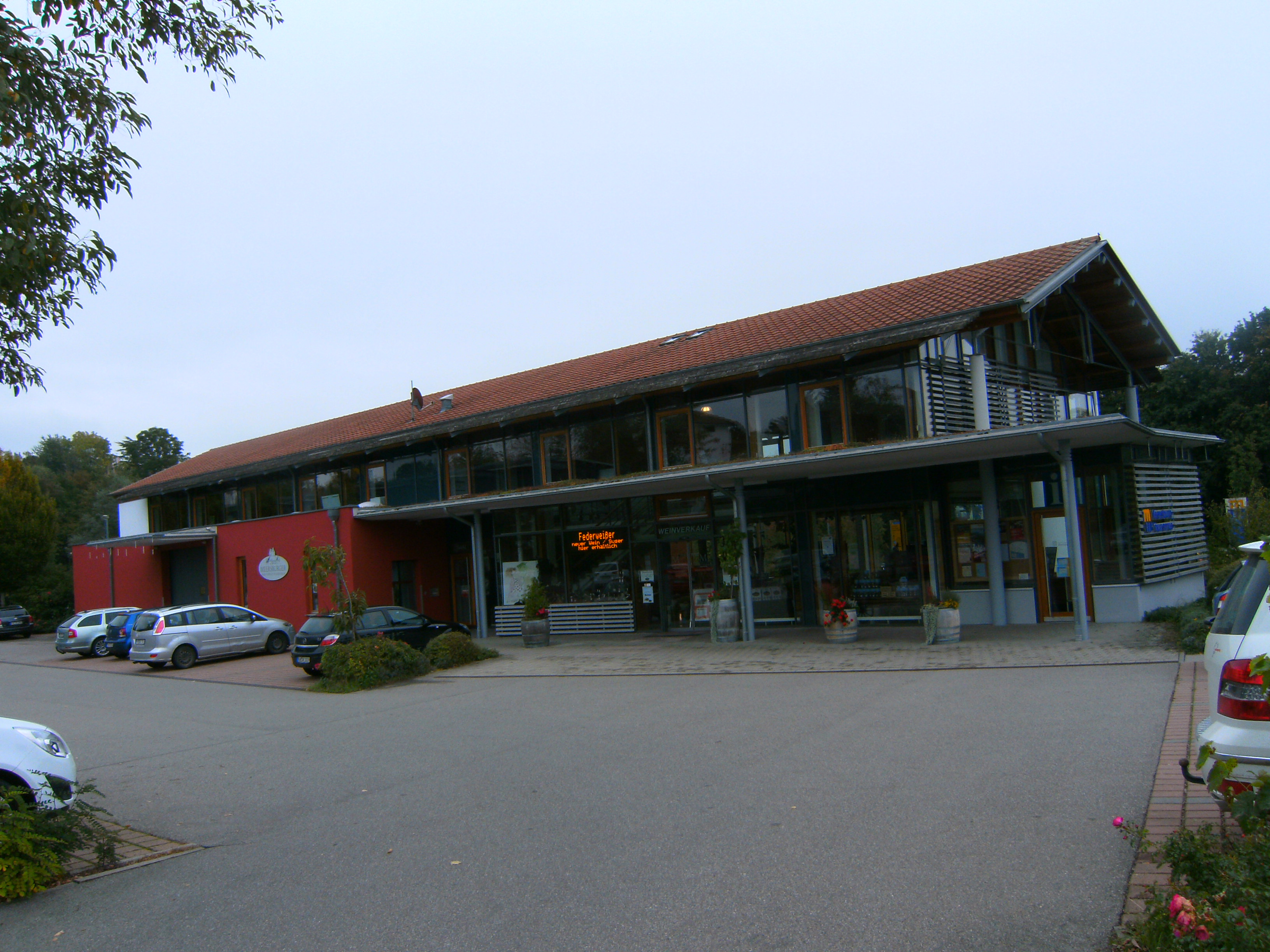 Meersburg, Germany, Kronenstraße: Hall of Winzerverein Meersburg (winemaking cooperative) for sale and fiests.